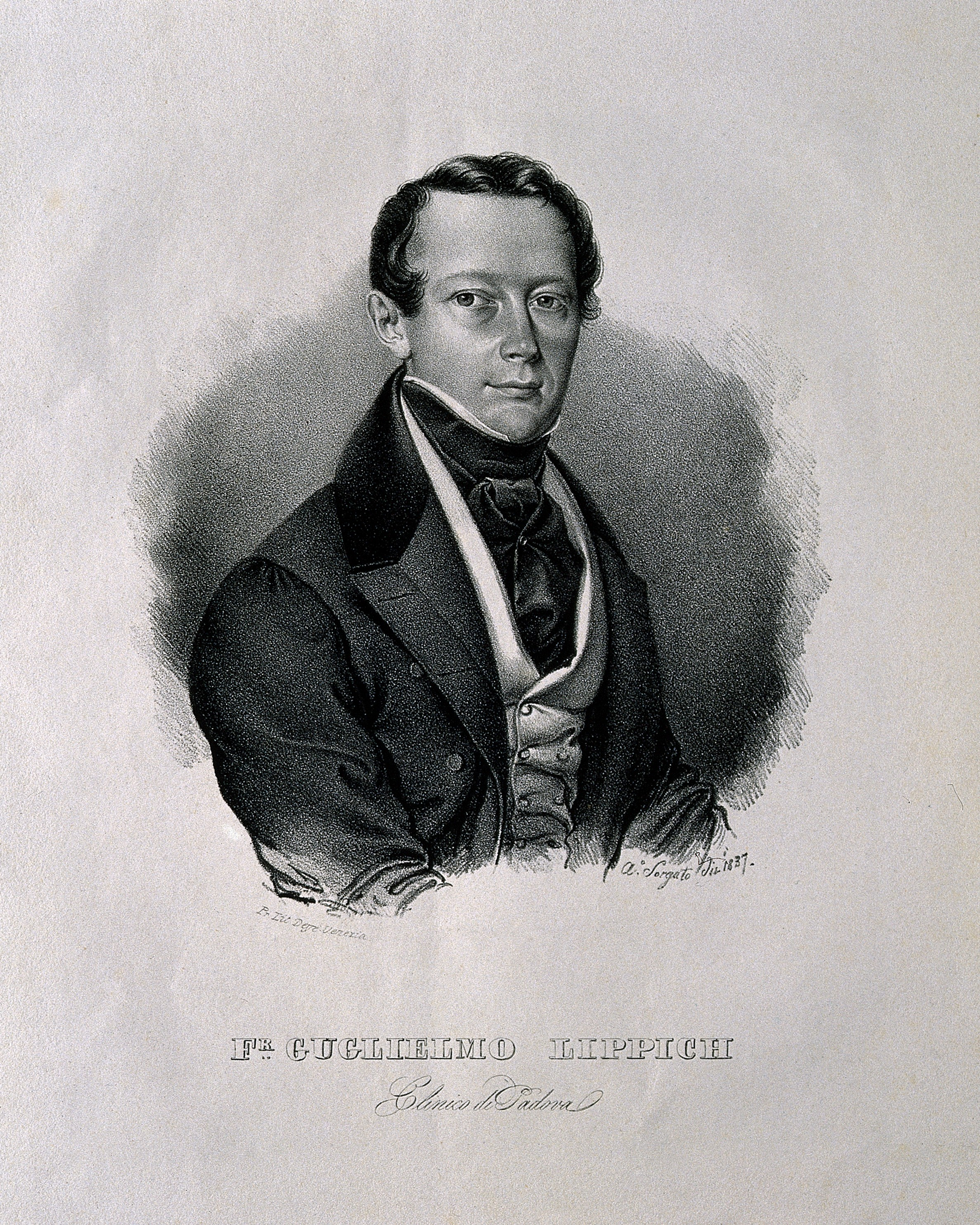 Franz Wilhelm Lippich. Lithograph by A. Sorgato, 1837. Iconographic Collections Keywords: lithographs; portrait prints; Franz Wilhelm Lippich